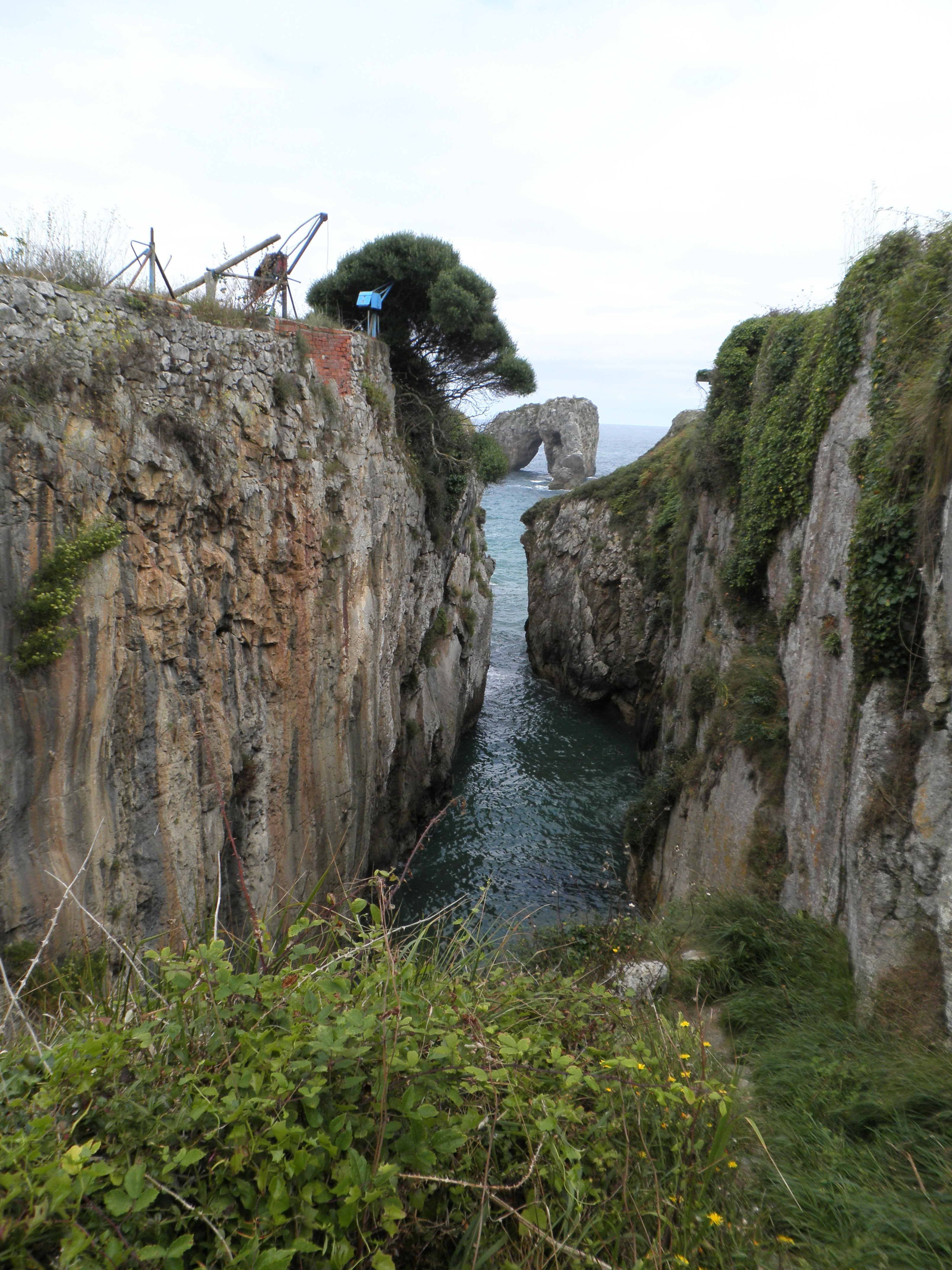 Beach La Canalina in Naves, Asturias.